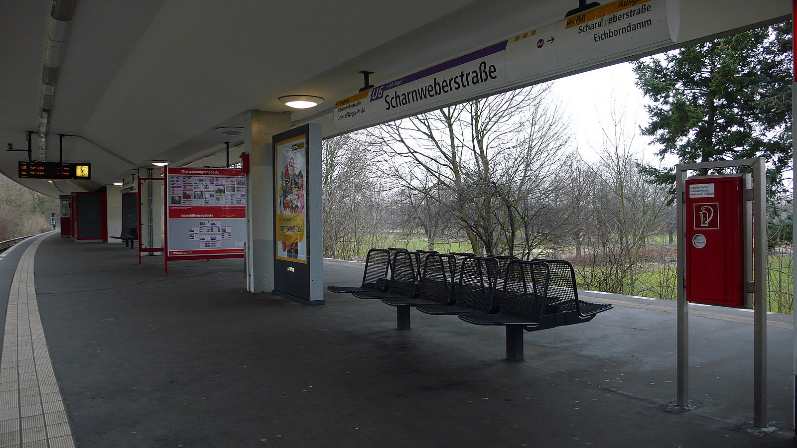 subway Scharnweberstr